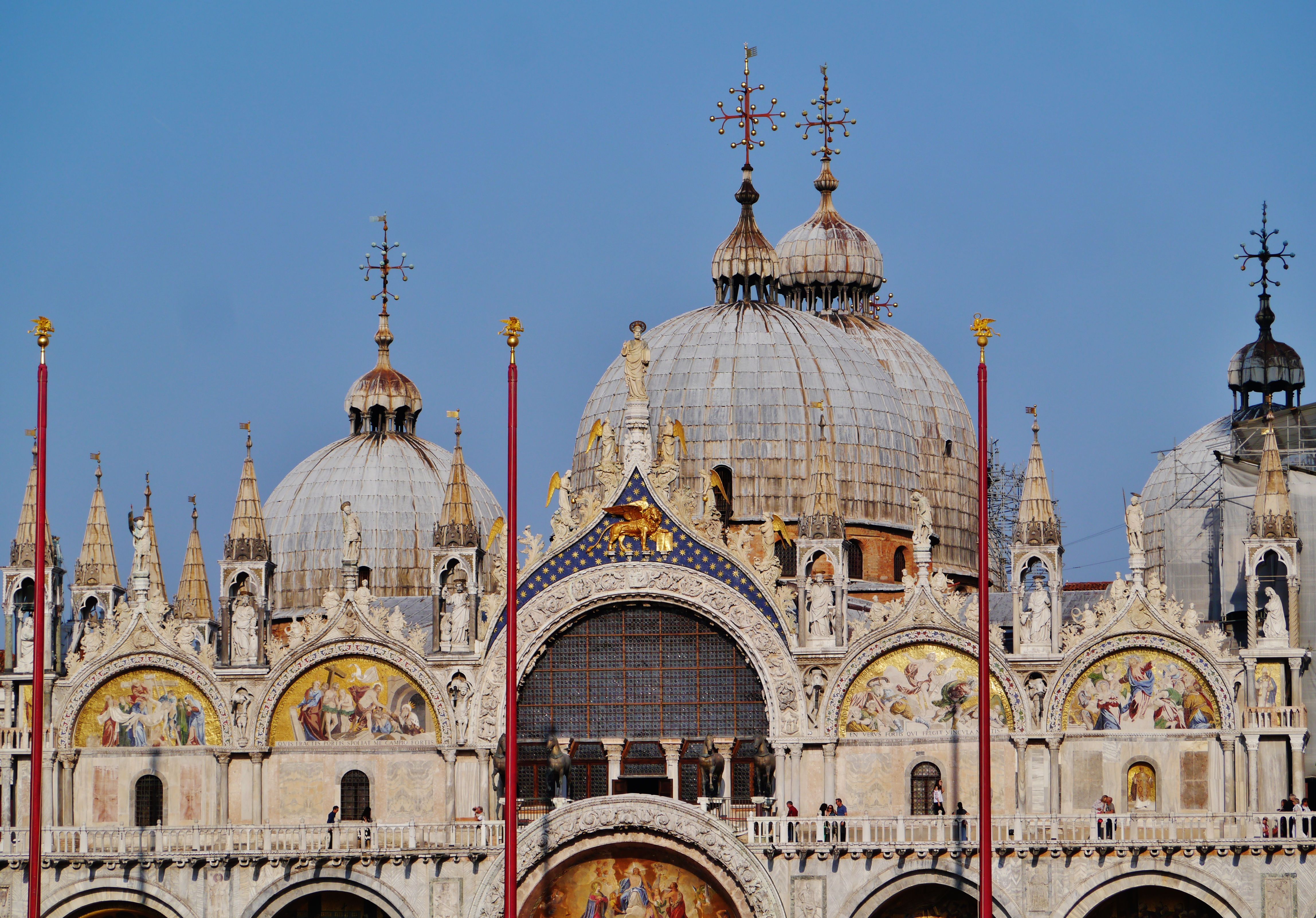 West Facade of St. Mark's Basilica, Venice, Metropolitan City of Venice, Region of Veneto, Italy